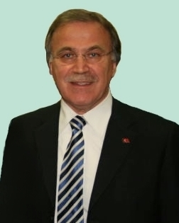 Turkish politician Mehmet Ali Şahin